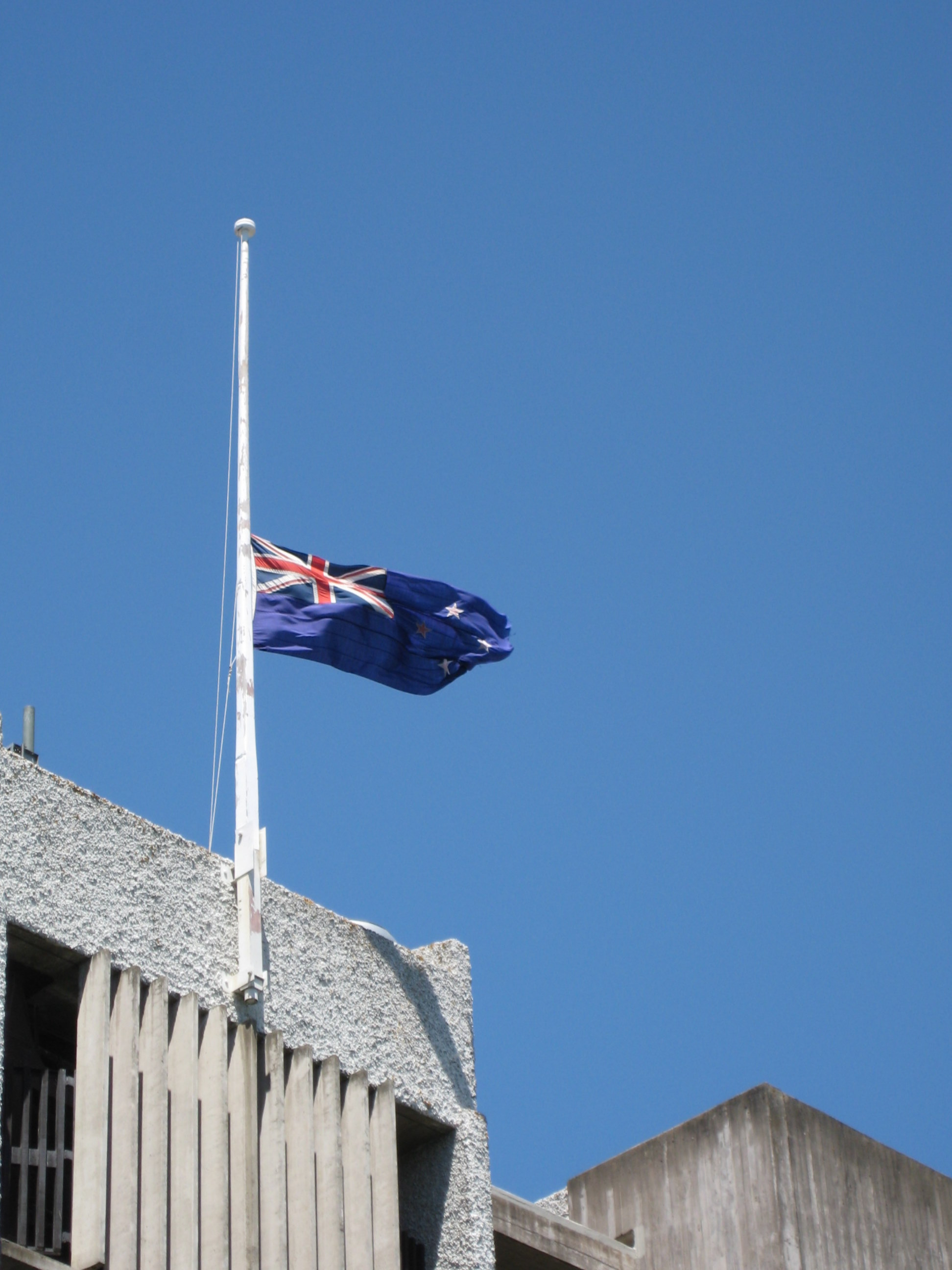 The New Zealand flag flying at half-mast on the day of the death of Sir Edmund Hillary. This flag is above the Registry building of the University of Canterbury, Christchurch.